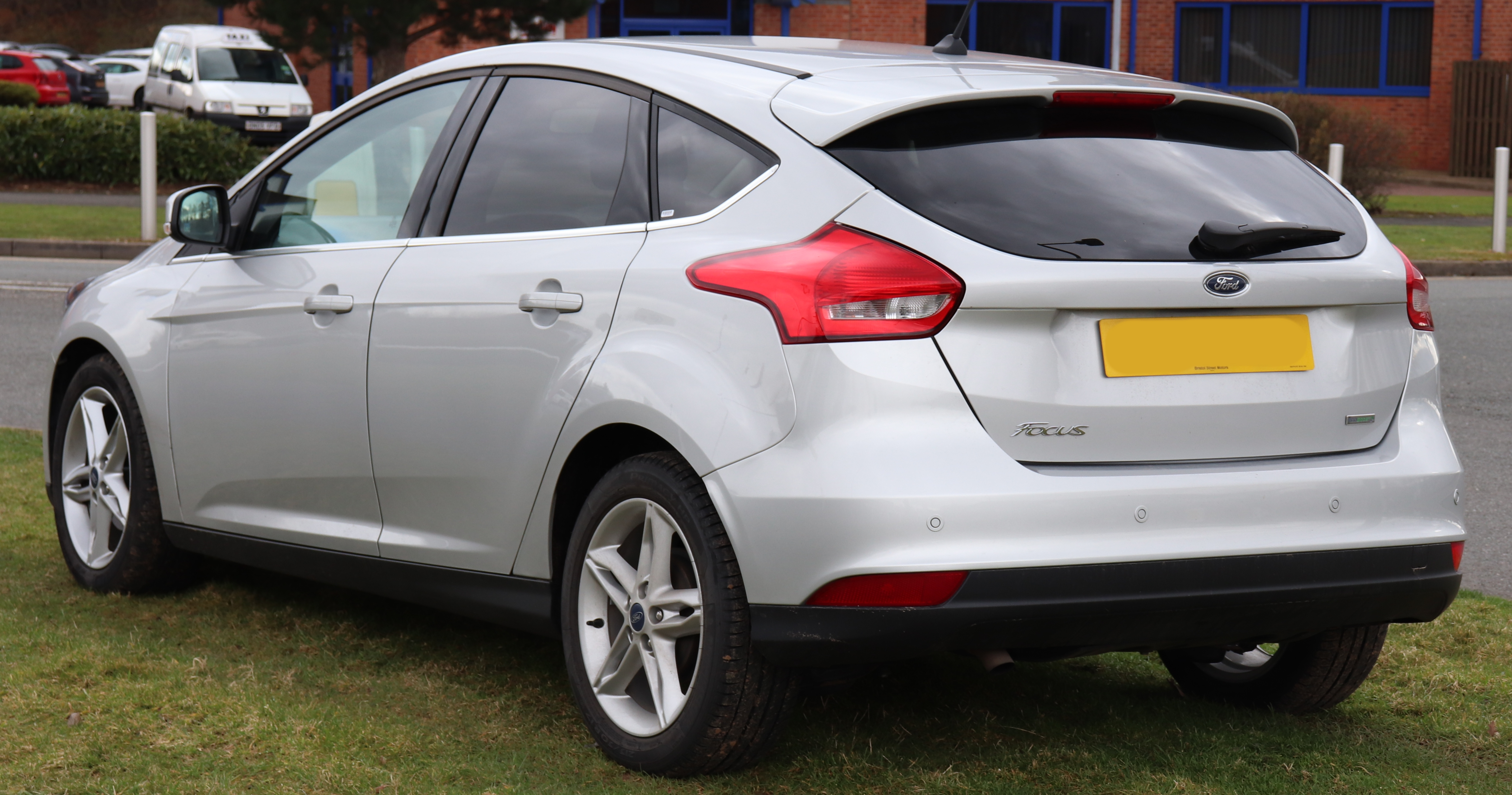 2017 Ford Focus Zetec Edition 1.0 Rear Taken in Leamington Spa